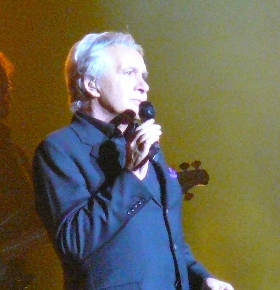 Picture of Michel Sardou on the stage of Forest National, in Brussels, Belgium, in November 2007, during his "Hors format" tour.